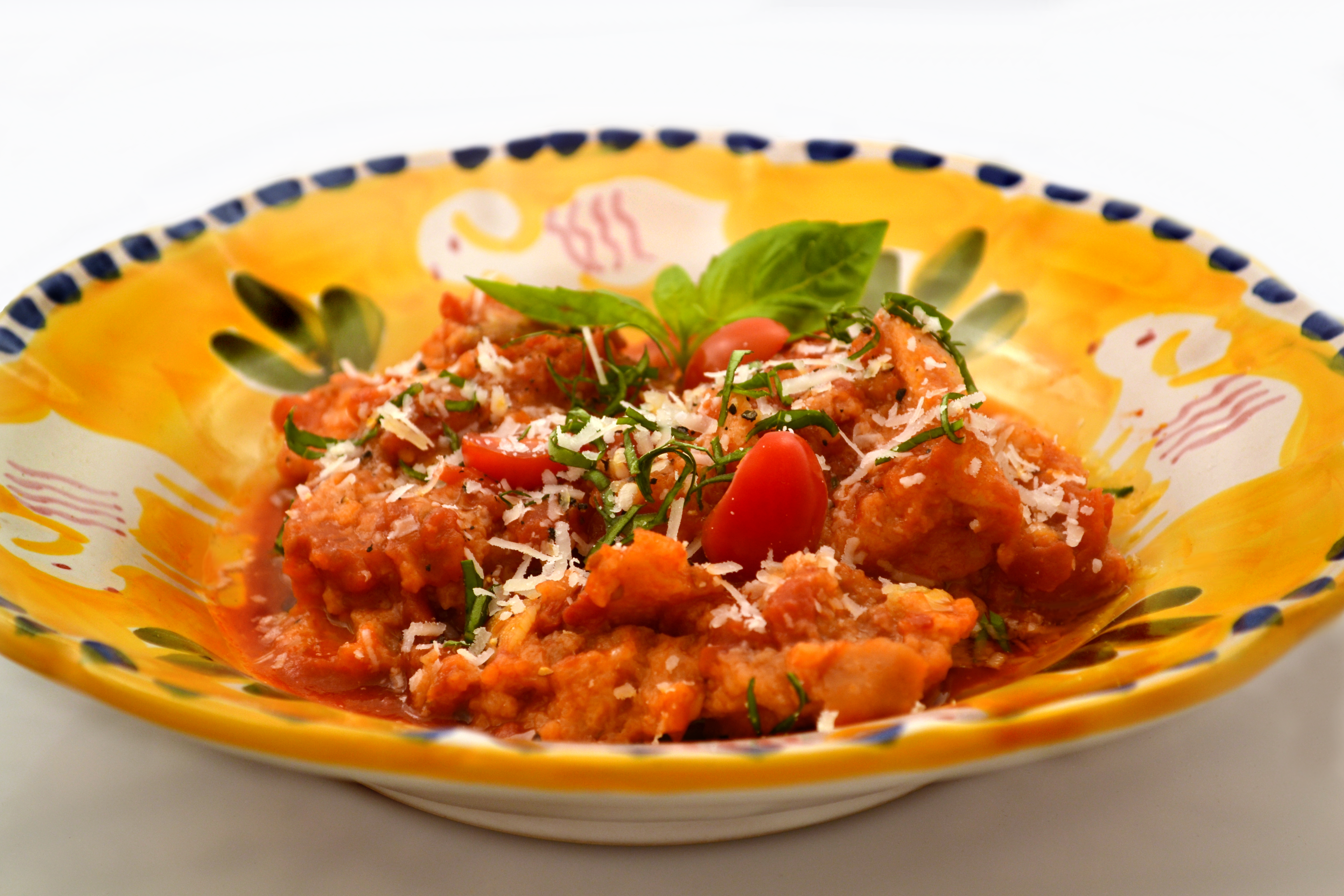 Image I took of the soup dish.